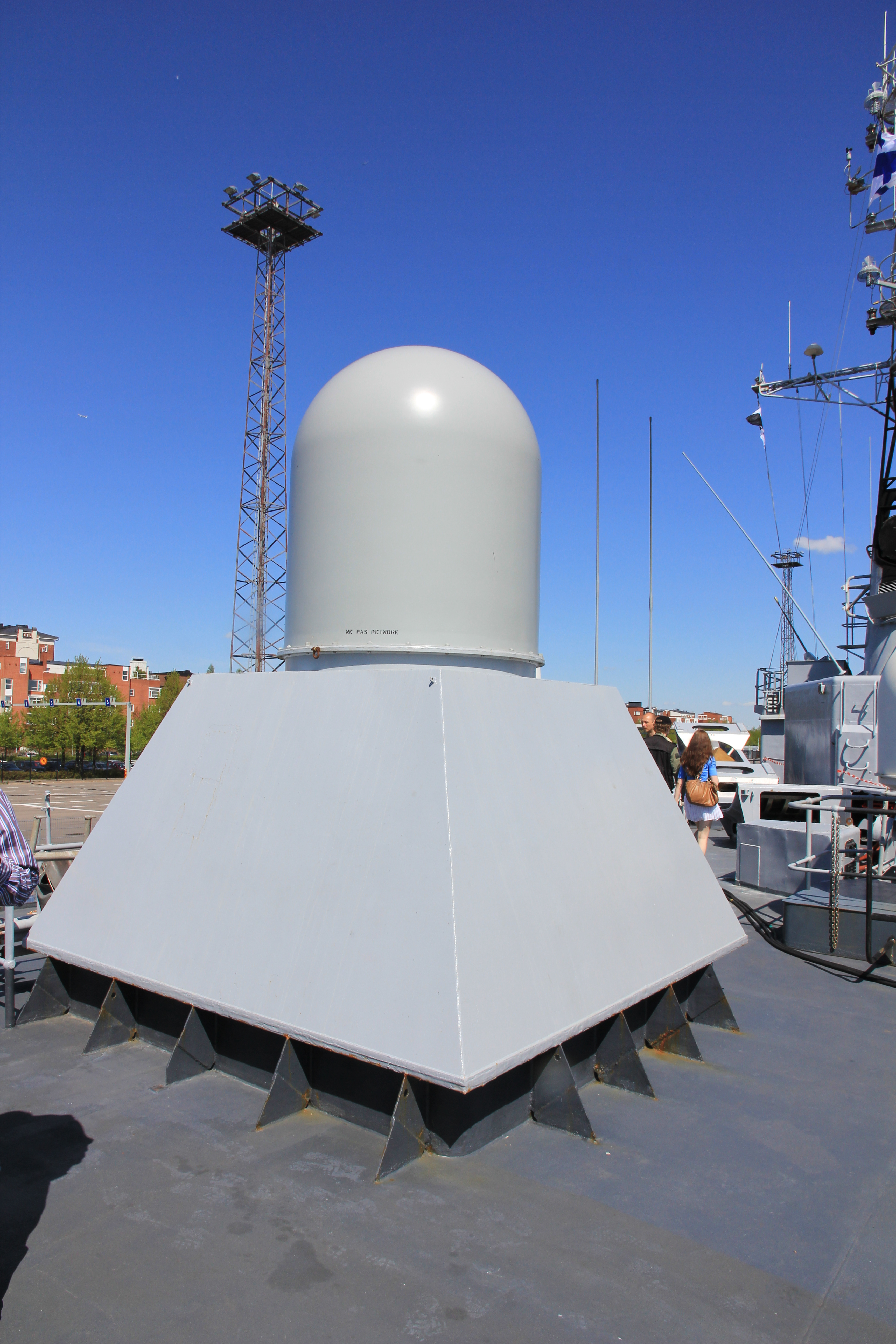 Syracuse military communications satellite antenna of the French aviso Commandant Blaison (F793).